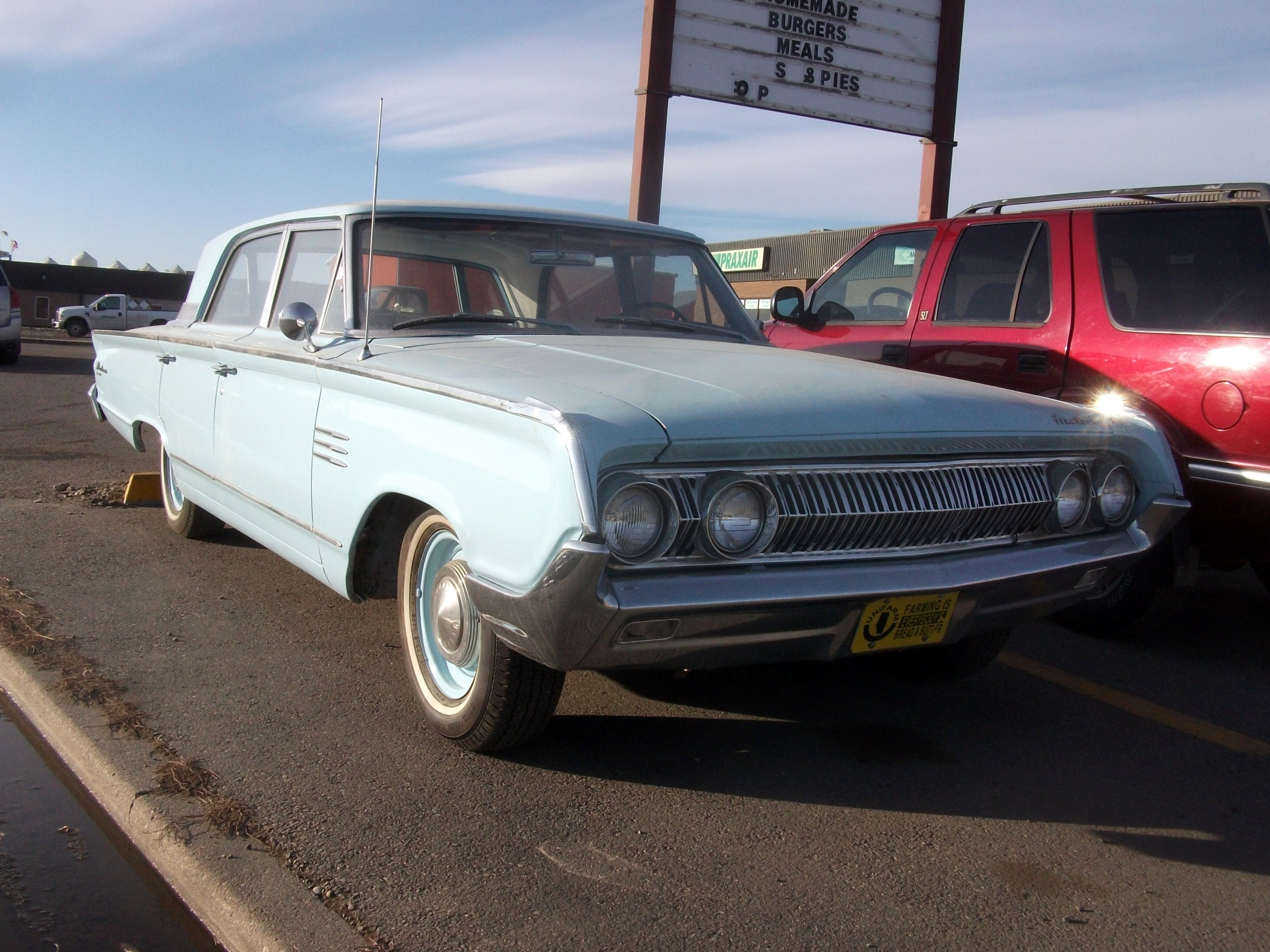 Lovely Canadian classic car in four door form. These used the Mercury shell but with a Ford interior. A Ford 223cid inline six engine was the base engine with a Mercury 352cid V-8 optional.